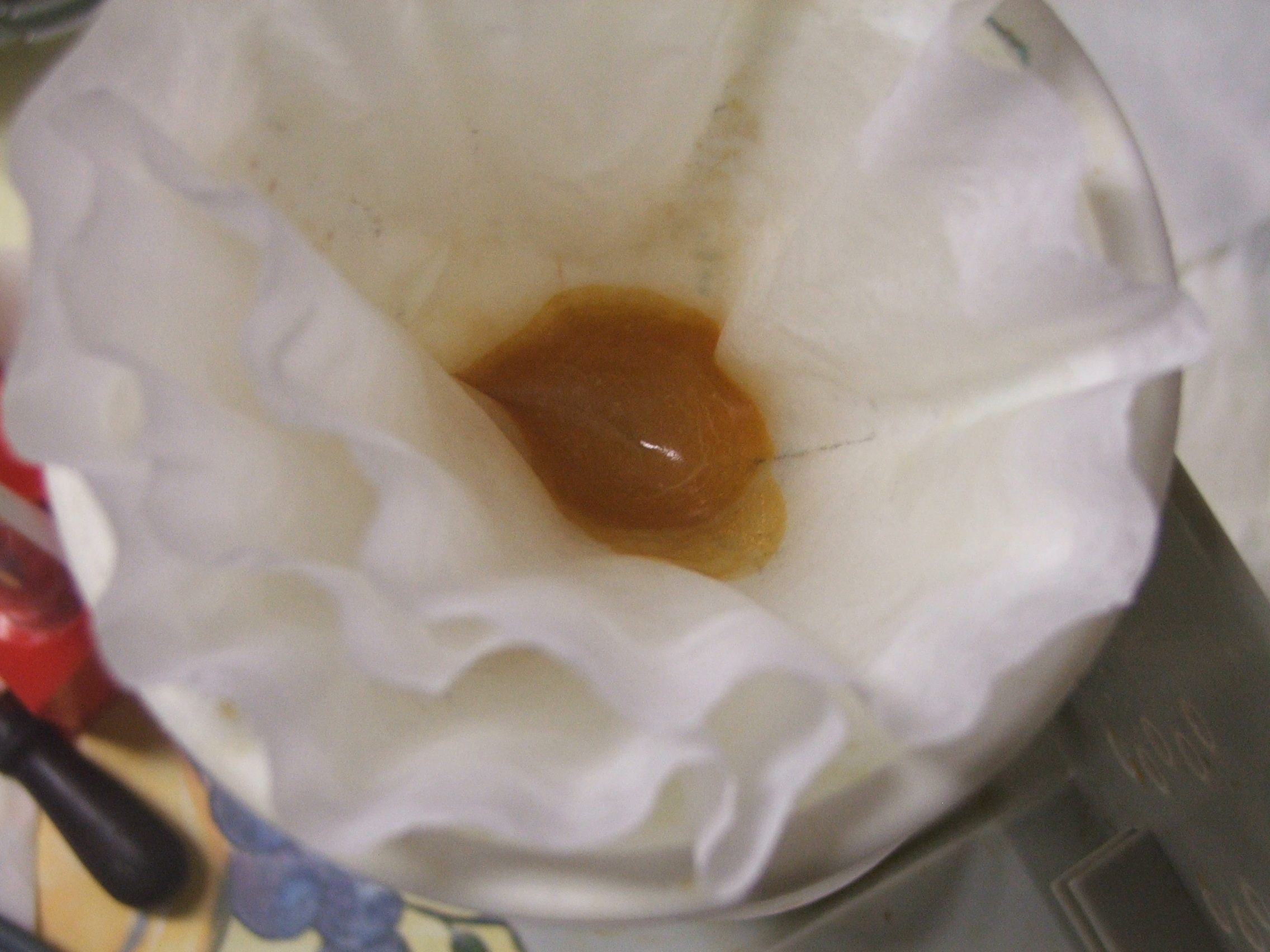 Oxidized manganese(II) oxide made by reacting manganese(II) sulfate with ammonia. It was originally very light brown but turned yellow-brown.